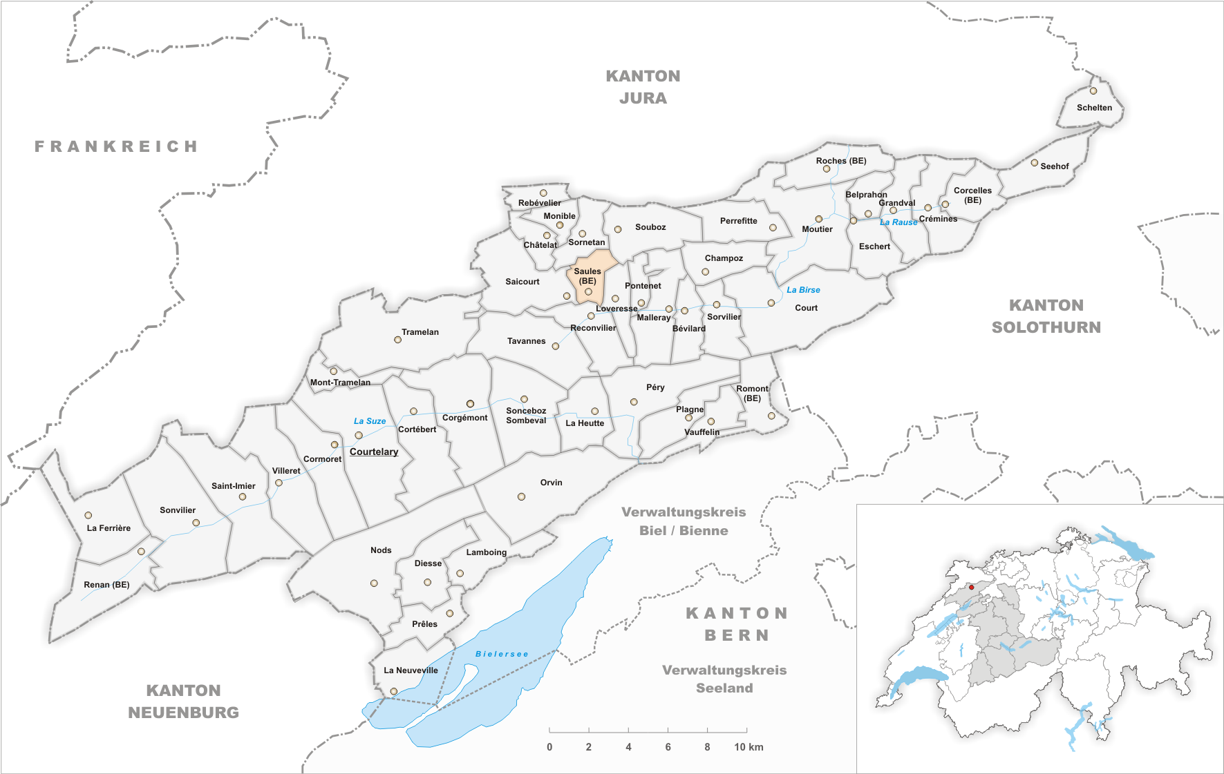 Municipality Saules